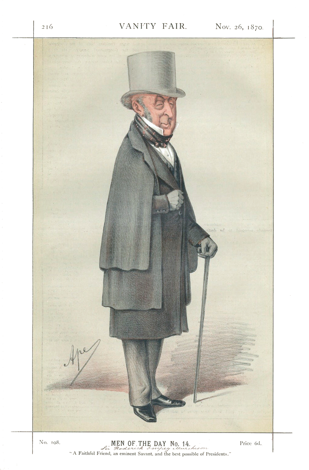 Uploaded by Theakston-Thomas